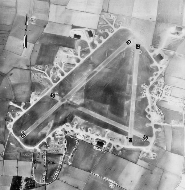 Aerial photograph of Fulbeck Airfield, England.